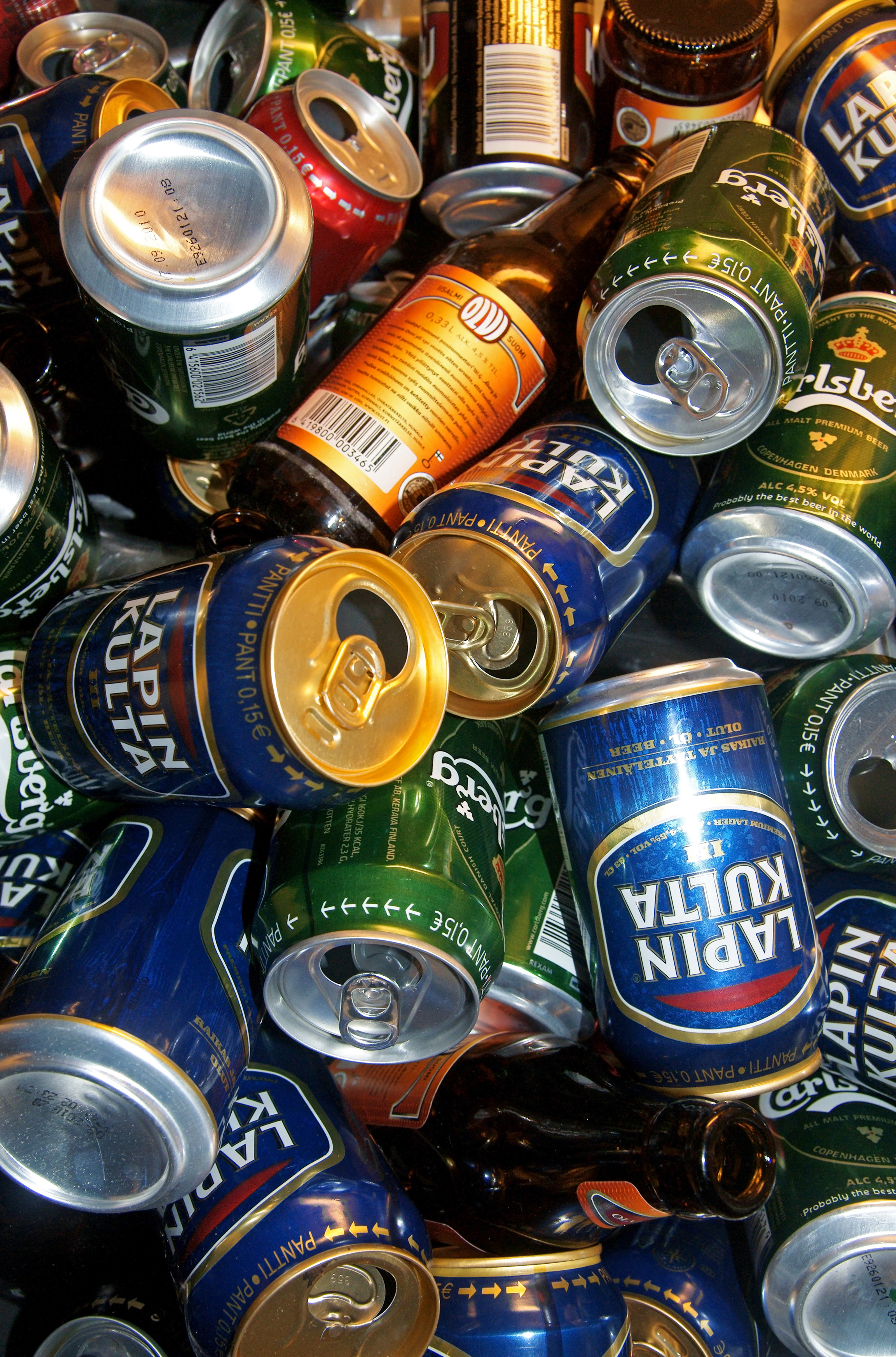 Beer cans and bottles.